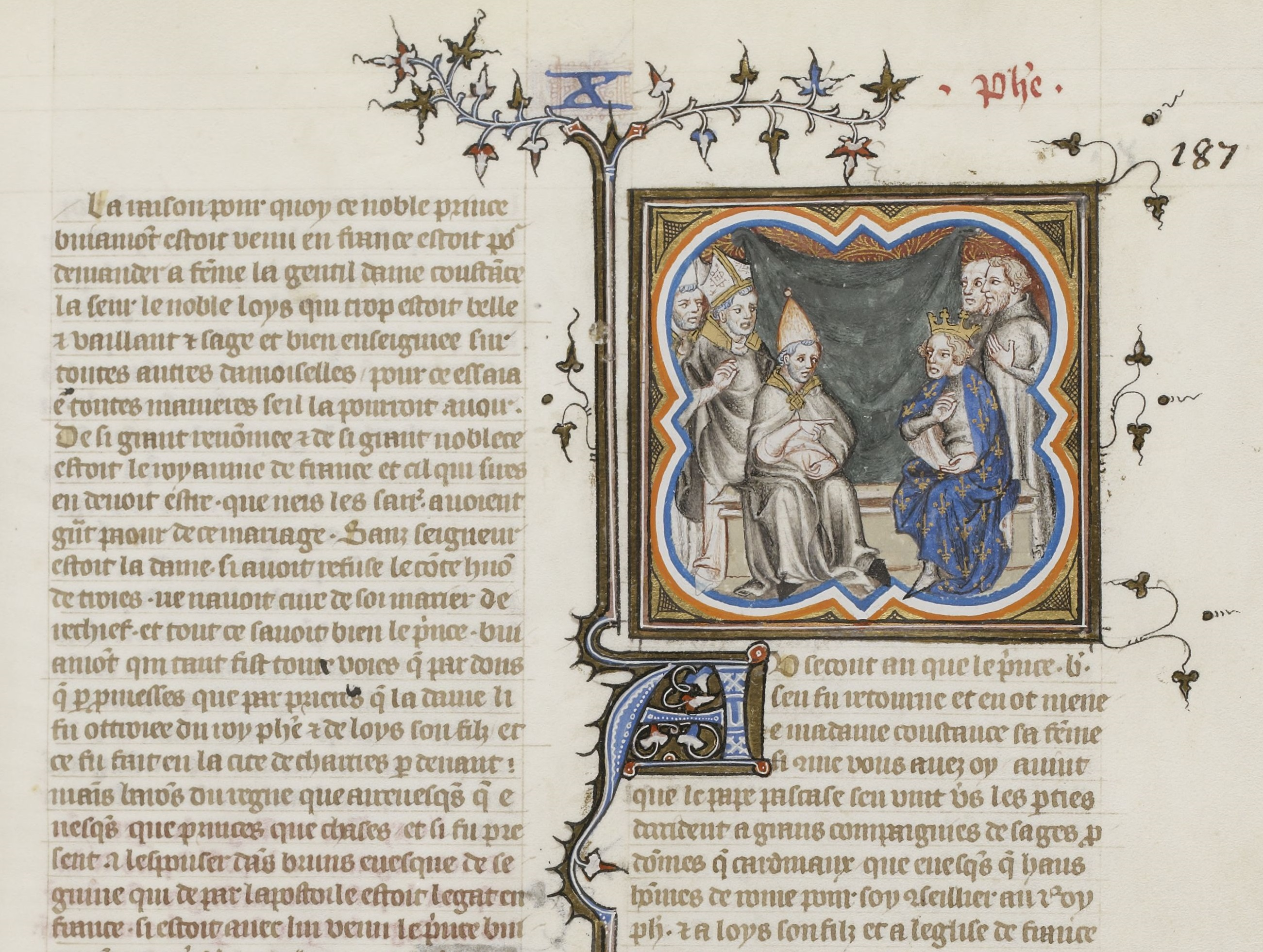 The Meeting of Pope Paschal II and King Phillip I, from the Grandes Chronicles de France in the year 1107.